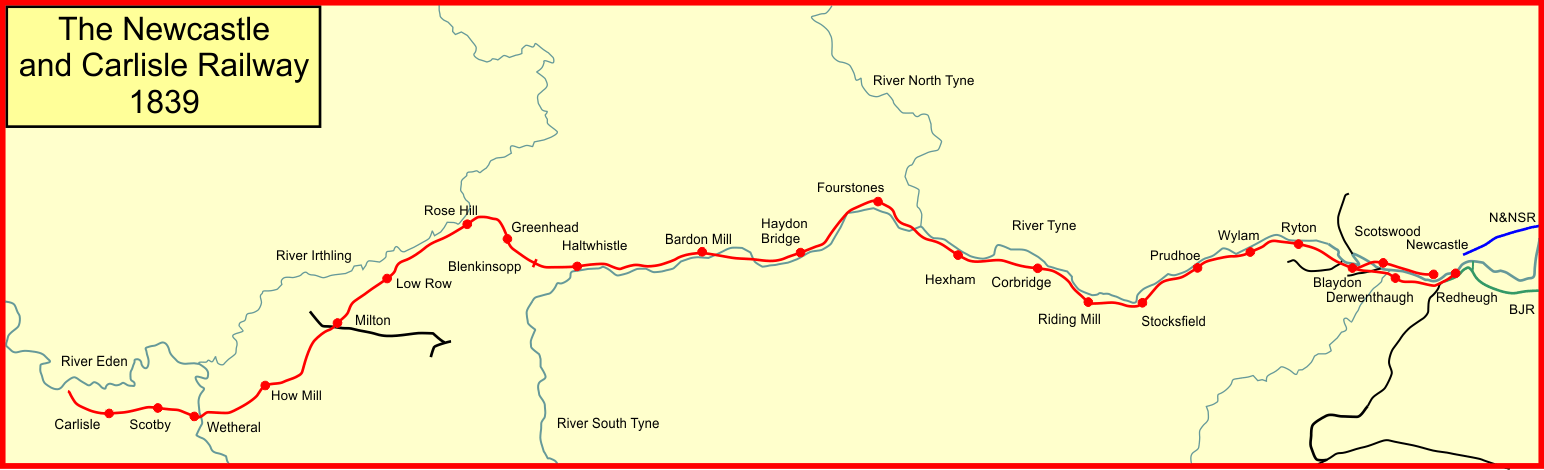 System map of the Newcastle and Carlisle Railway, England, on substantial completion of the first line, 1839